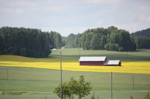 A view over Lepsämä village at summer 2008.